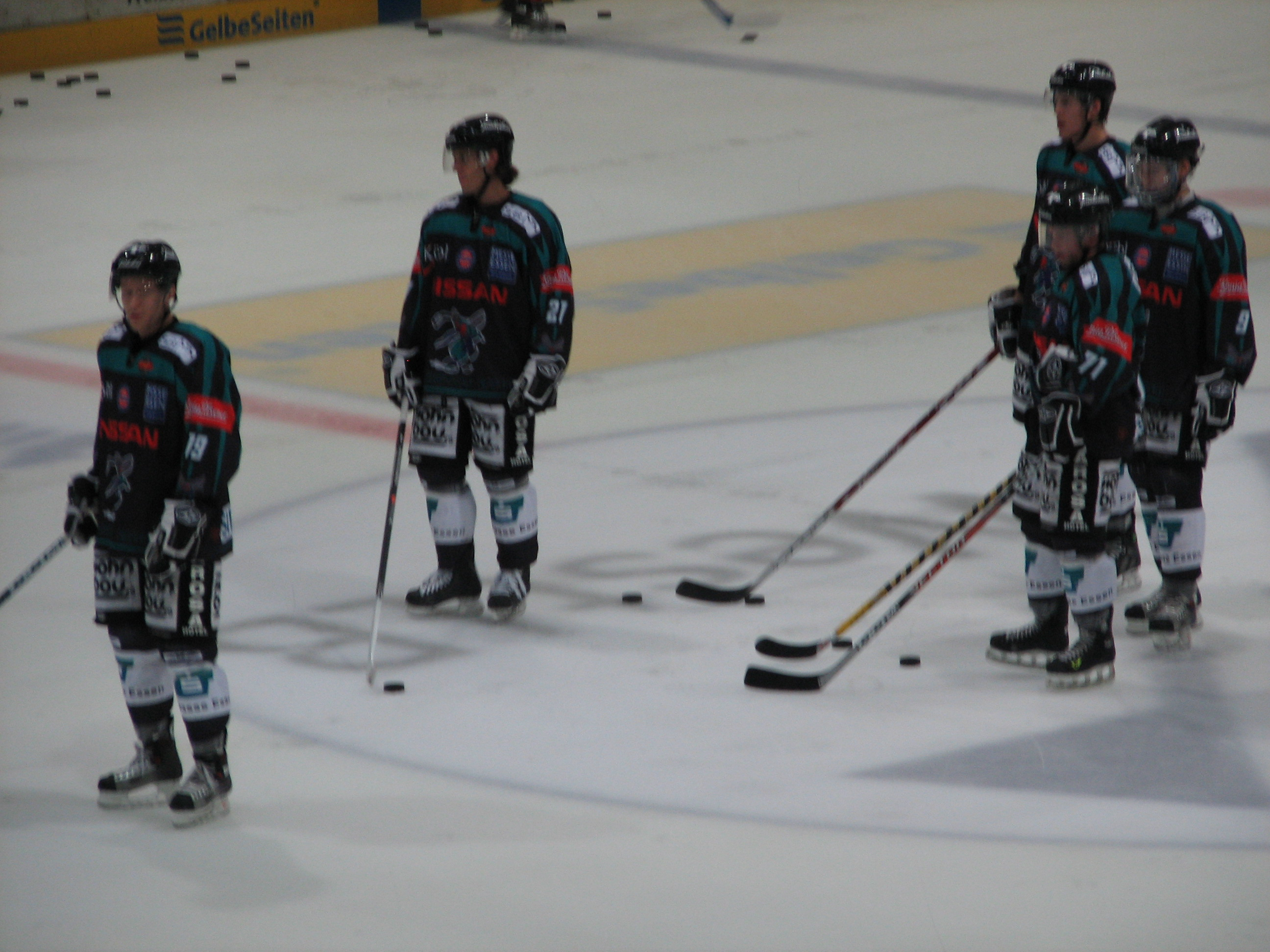 Moskitos Essen (during a test game against Iserlohn Roosters)